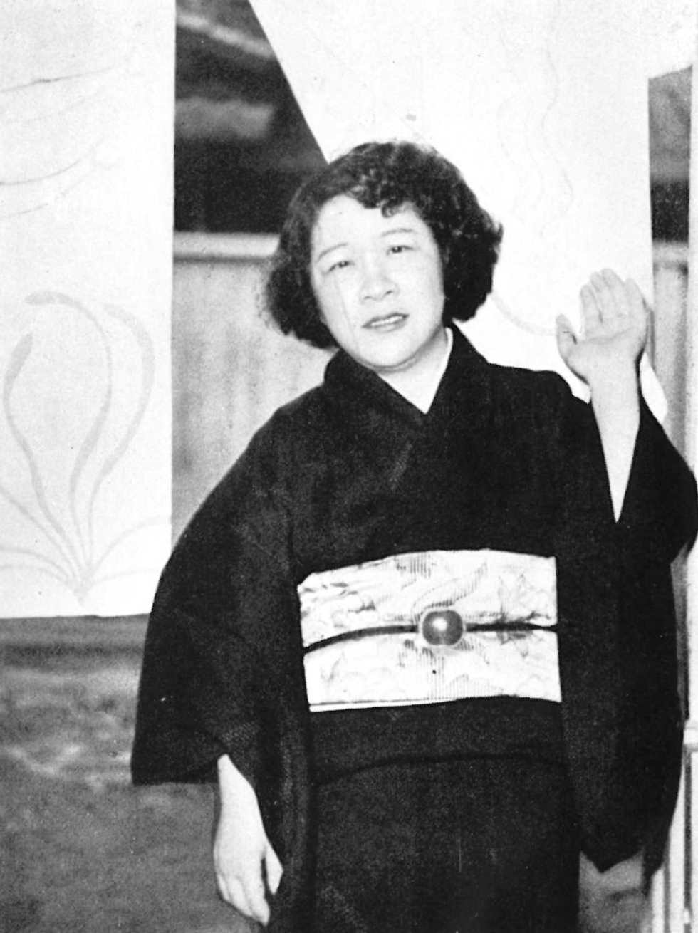 Fumiko Hayashi